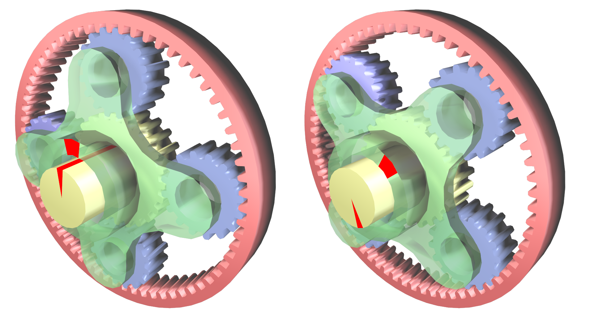 Illustration of an epicyclic gear effecting a gear reduction/increase.